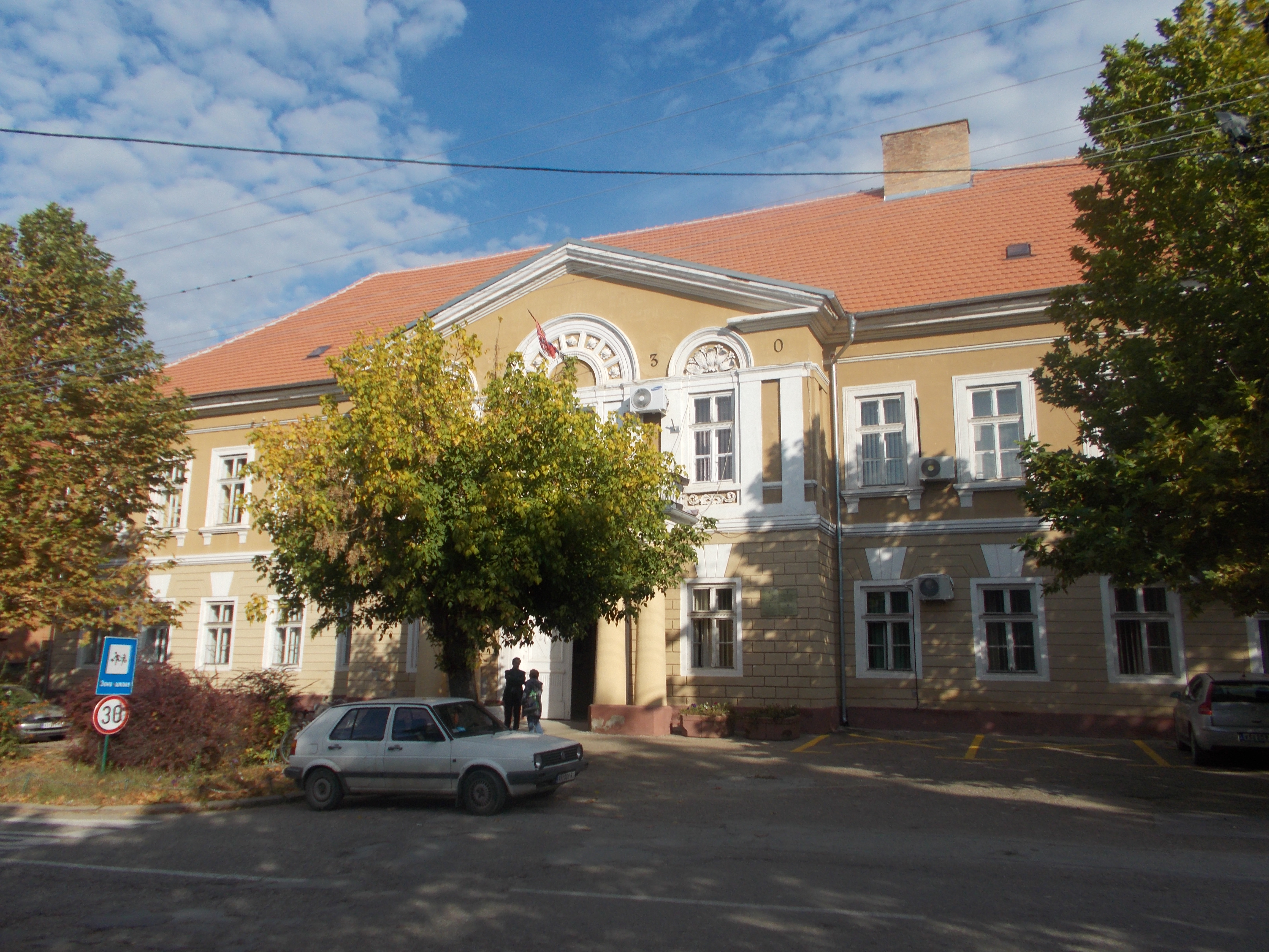 City Hall at Bela Crkva